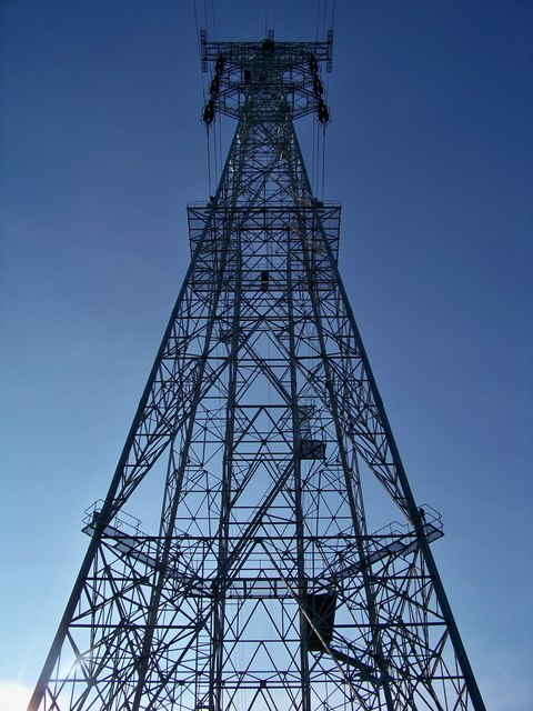 275 kV Forth Crossing - Northern Pylon A view of the pylon from the nearby walkway. One of the two tallest pylons in Scotland.